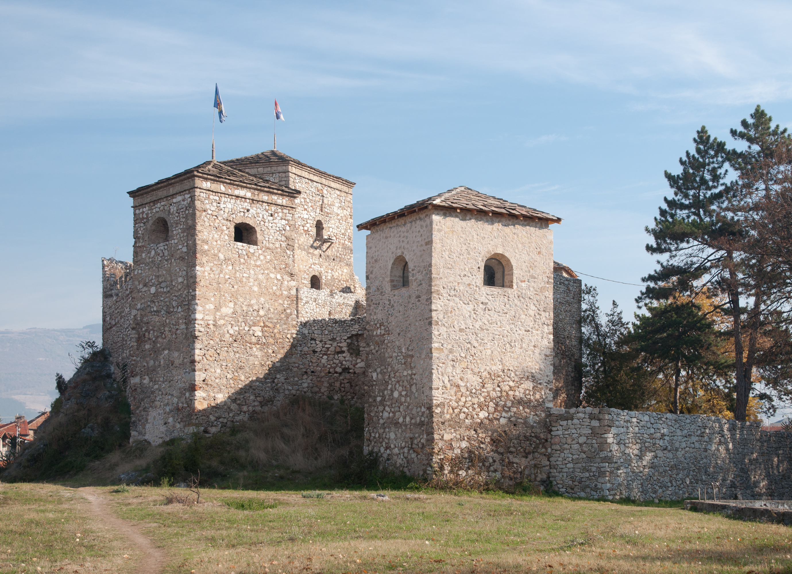 The old Momcilo's fortress (Momcilov grad) mostly known as Pirot Fortress in the town of Pirot, Serbia. Built in 14th century by Duke Momcilo.